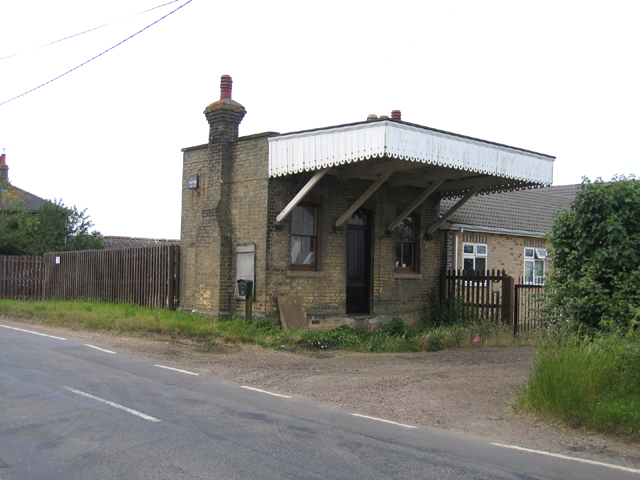 Old Stretham Station, Grunty Fen, Cambs